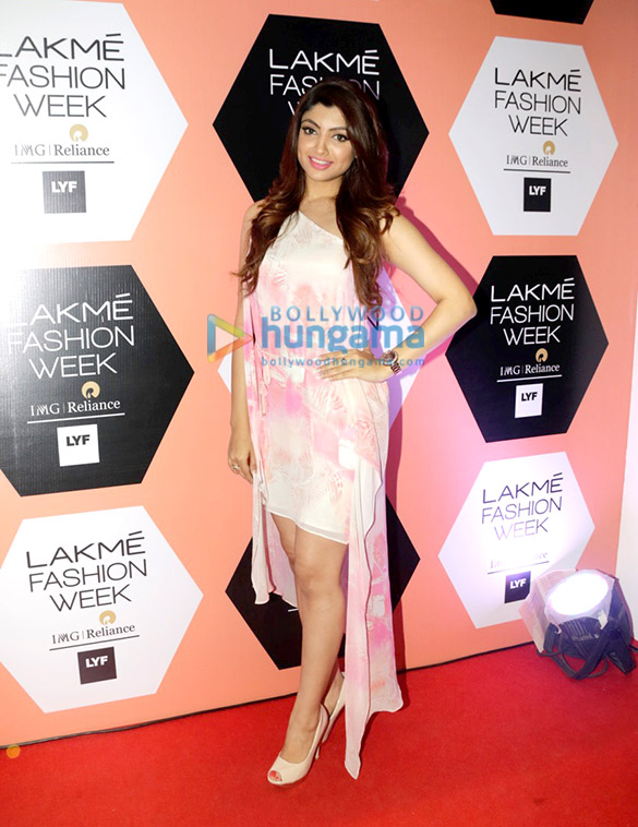 Puri attending the LFW 2016 on Day 3